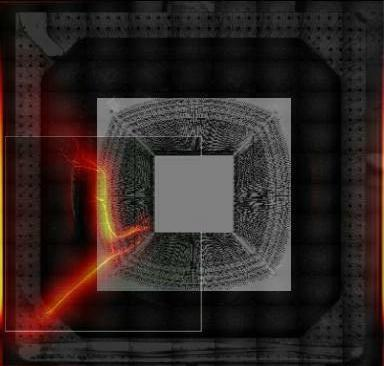 SSM data